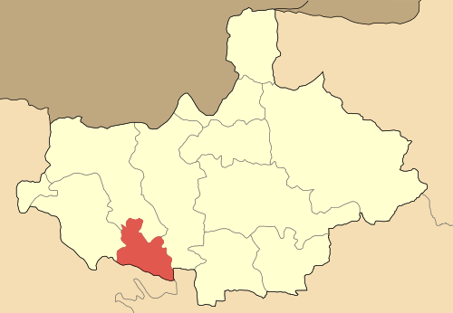 Locator map of Evropou municipality (Δήμος Ευρωπού) at Kilkis perfecture, Greece.